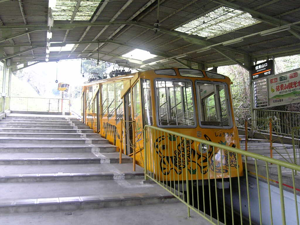 Kintetsu Nishi-Shigi Cable funicular